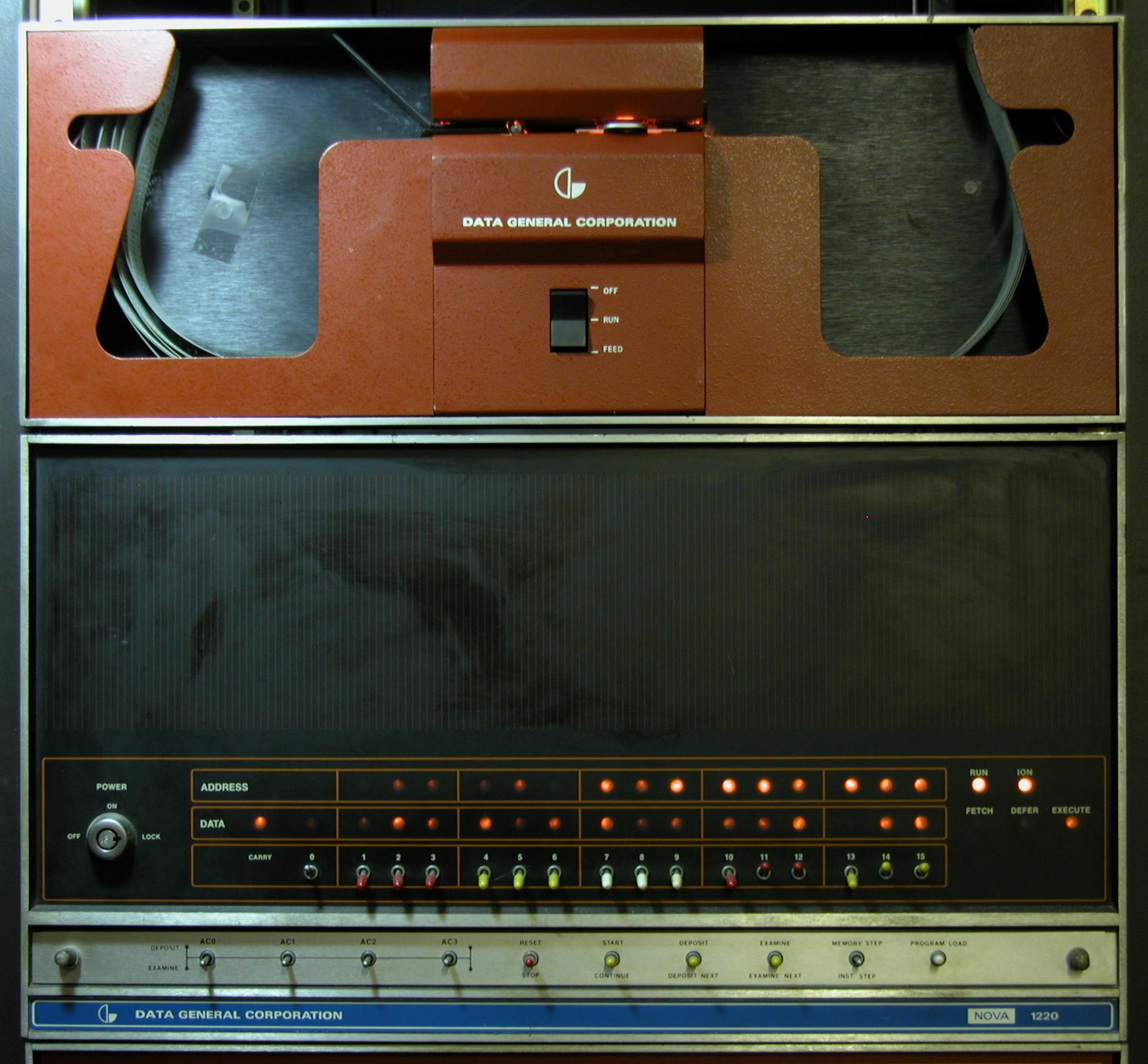 A Data General Nova 840 reading data off paper tape at the RCS/RI. From the private collection of Carl Friend. (Part of the front panel is borrowed from a model 1220. It is really an 840.)